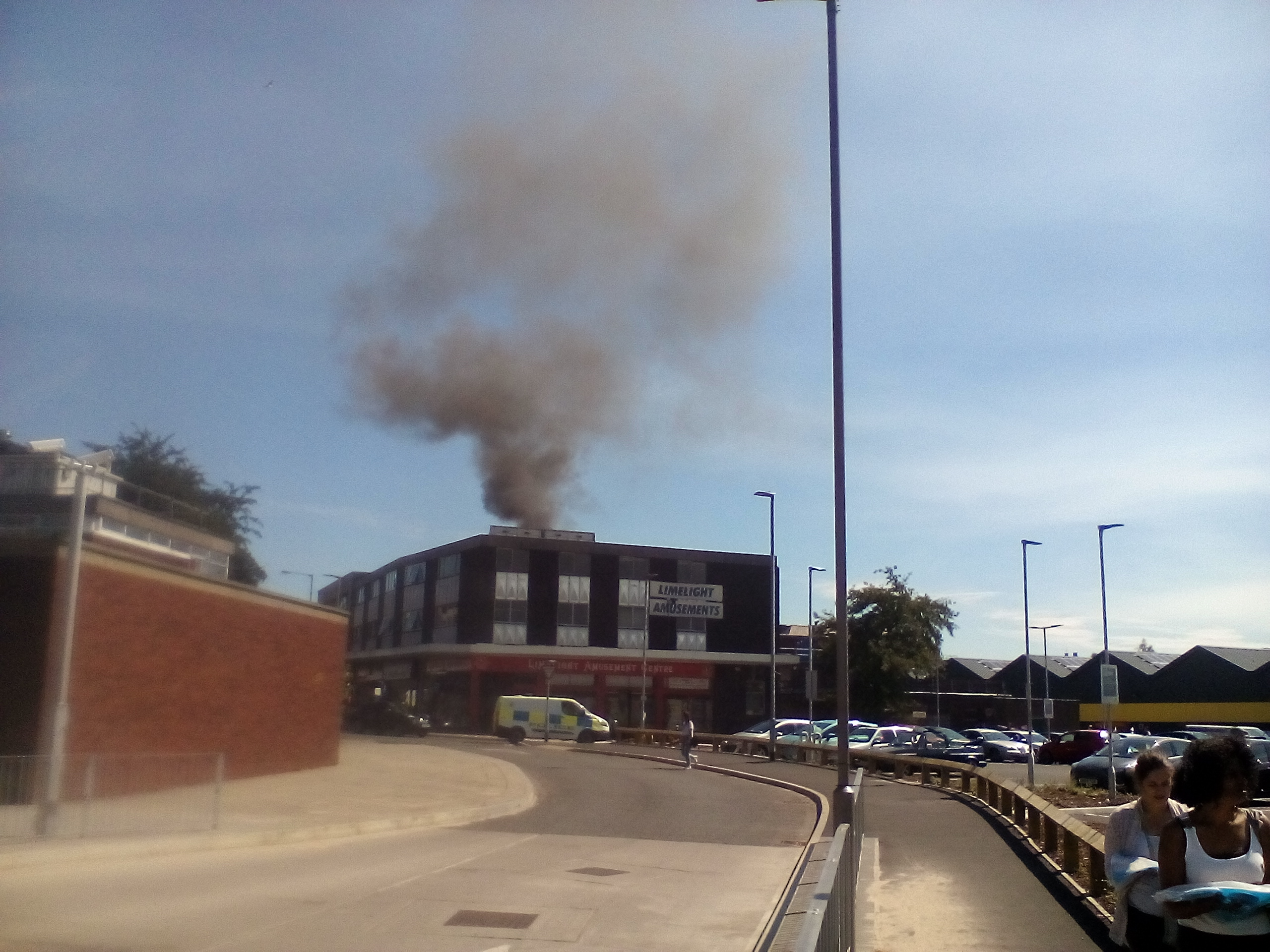 Photo of fire in Radcliffe shopping centre.